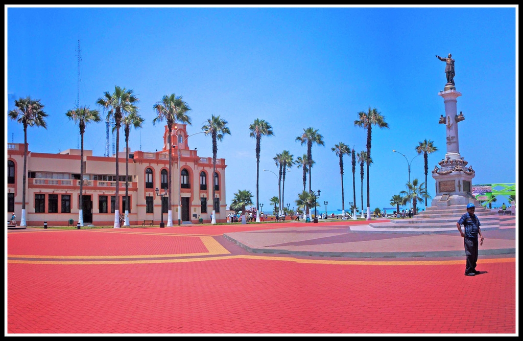 Center Squar at El Callao, Peru.